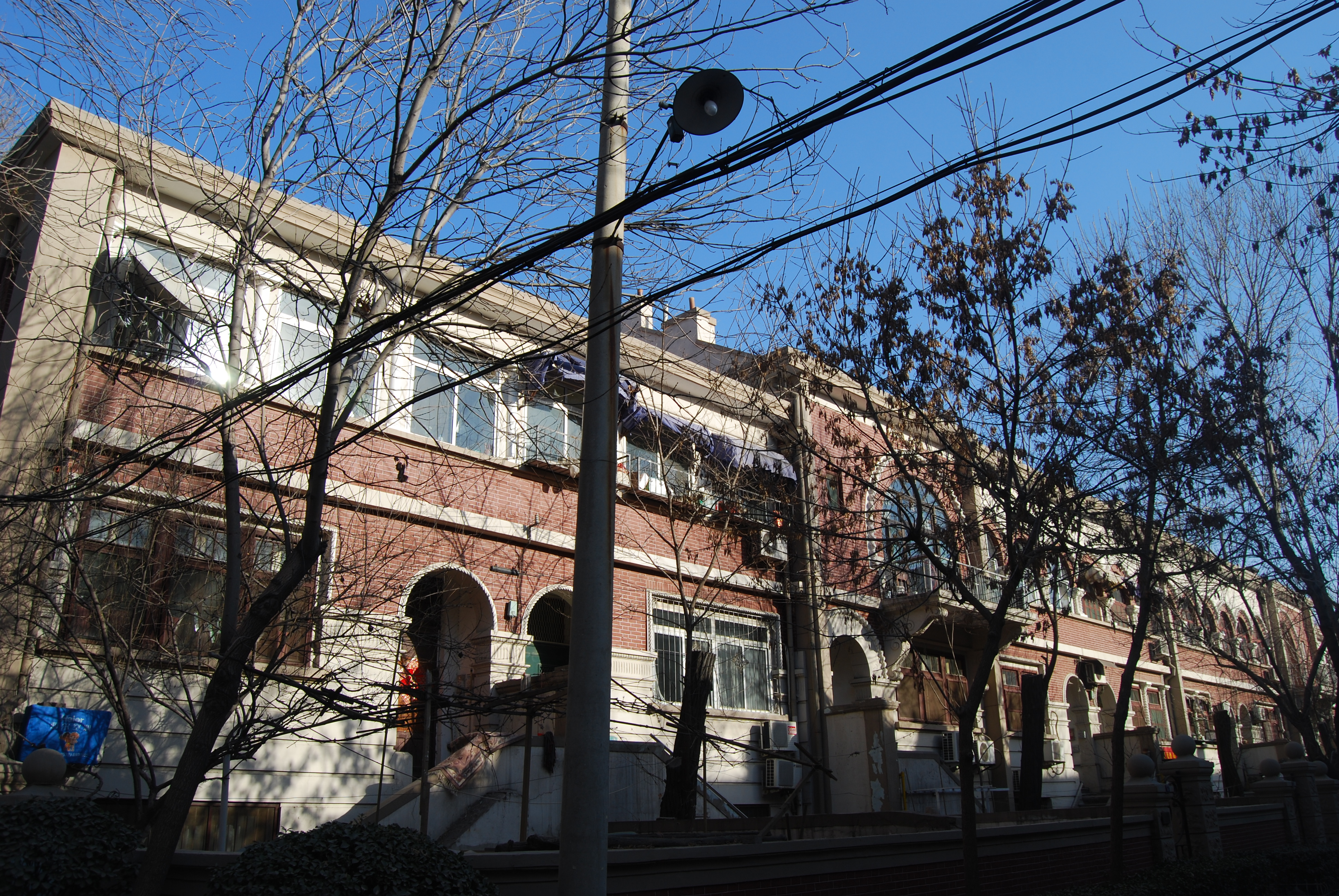 Anle Village No. 2–20 in Munan Dao, Heping District, Tianjin